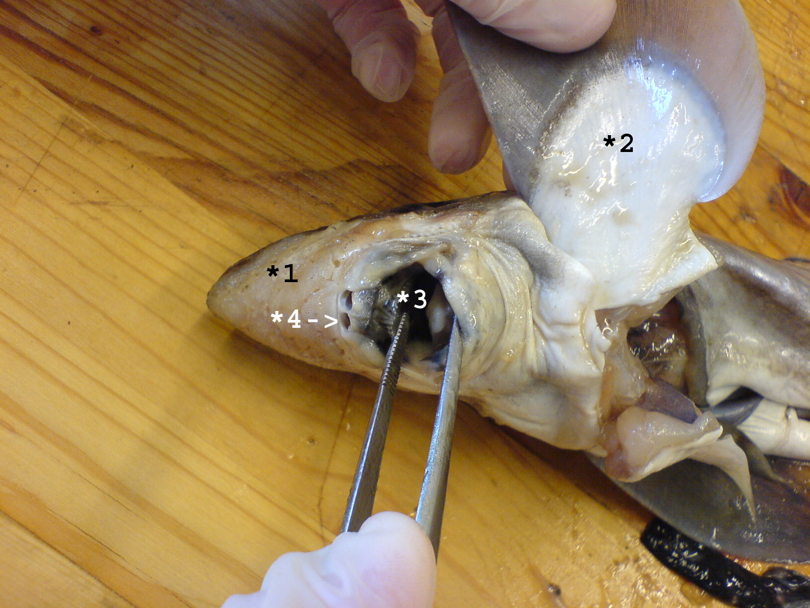 Picture of Chimaera monstrosa taken by myself H. Dahlmo 16:52, 13 September 2006 (UTC)